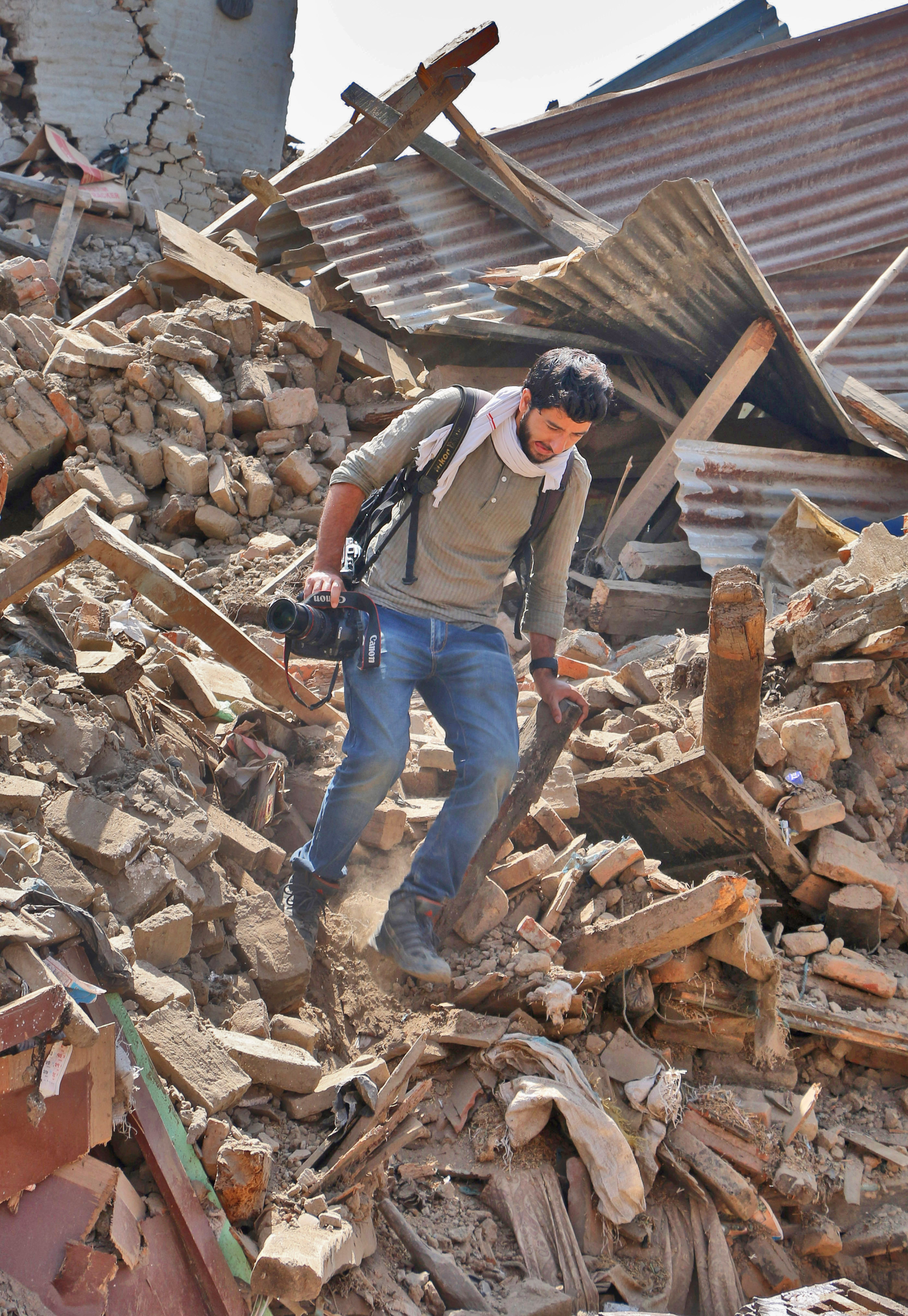 Burhaan Kinu during Nepal Earthquake assignment in April, 2015